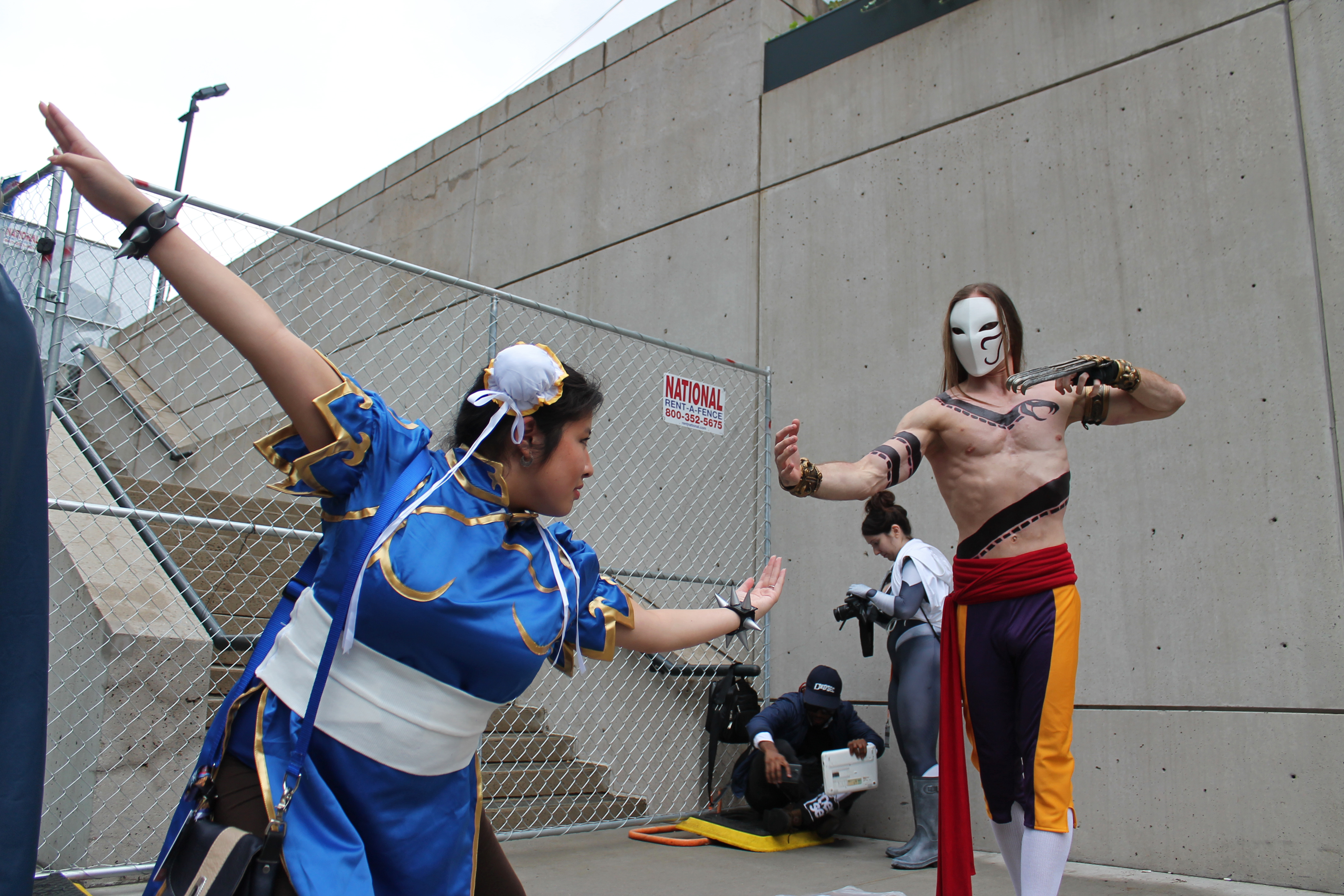 Cosplay at New York Comic Con 2016 (NYCC 2016).